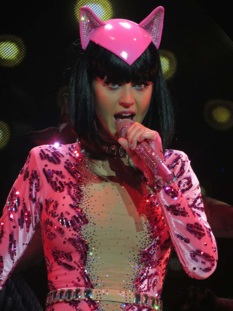 Katy Perry - The Prismatic World Tour